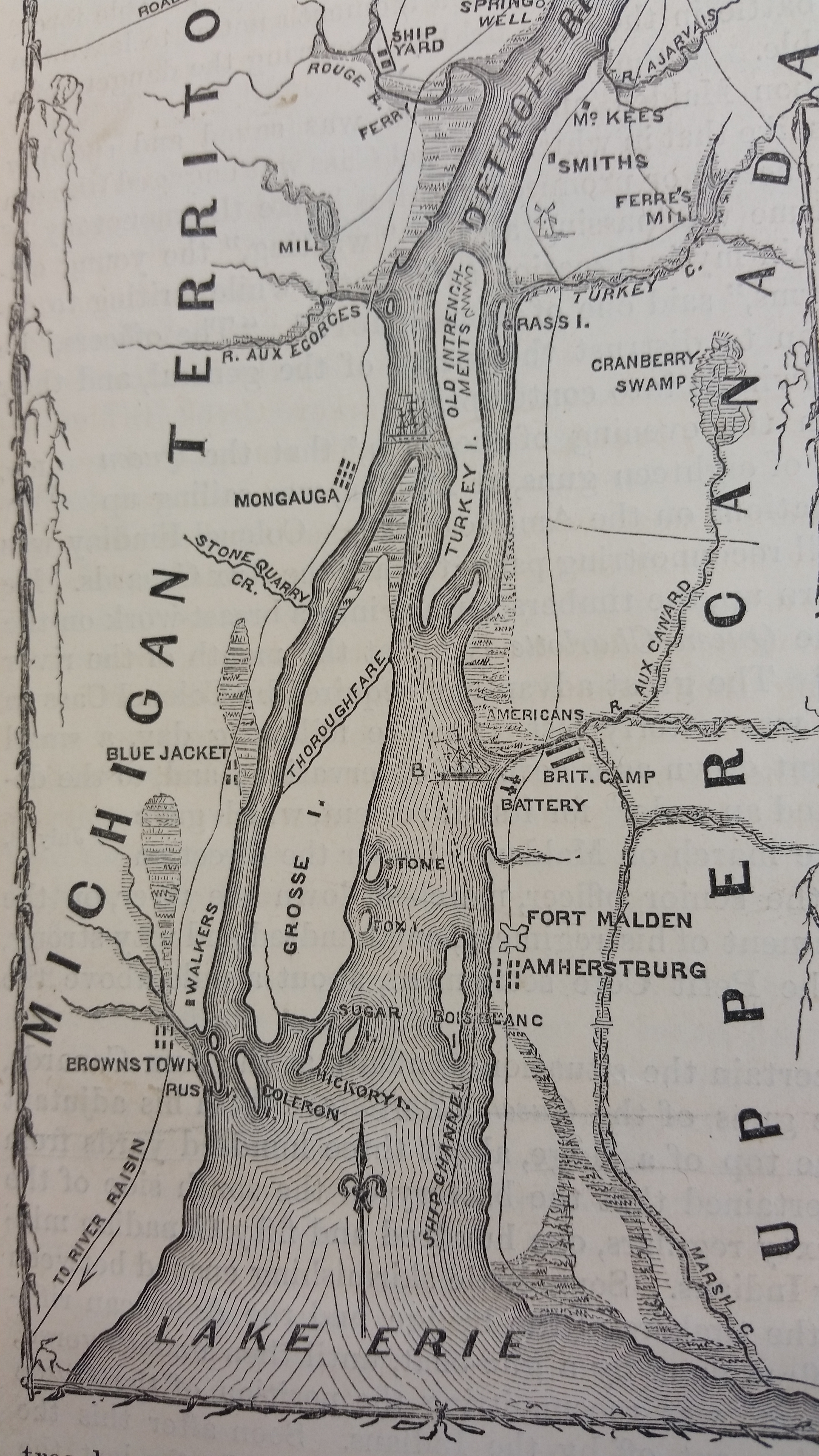 Fort Malden